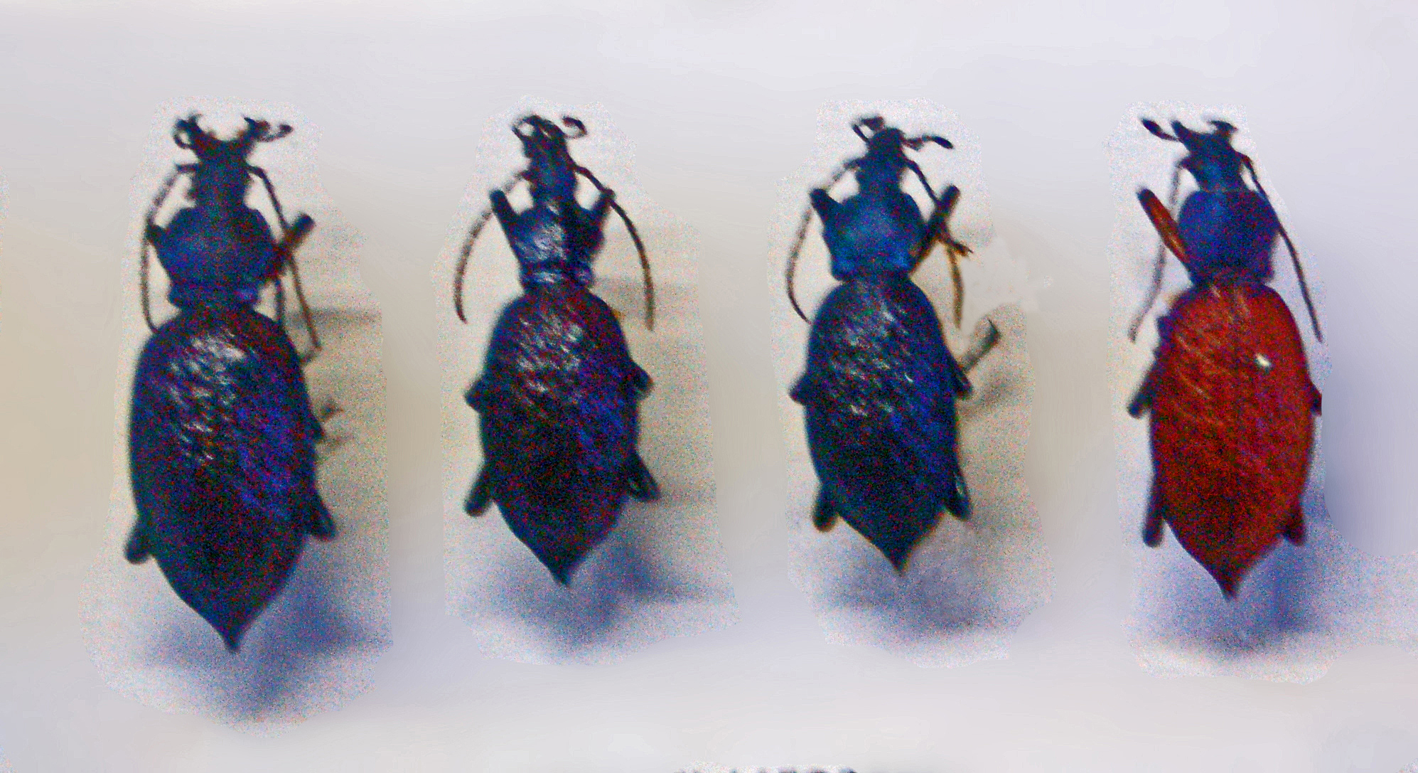 Carabus lafossei, at National Museum (Prague)